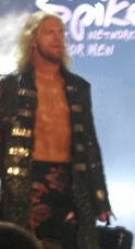 This photo is not copyrighted. I took this photo with my digital camera. Category:Professional wrestling free use media